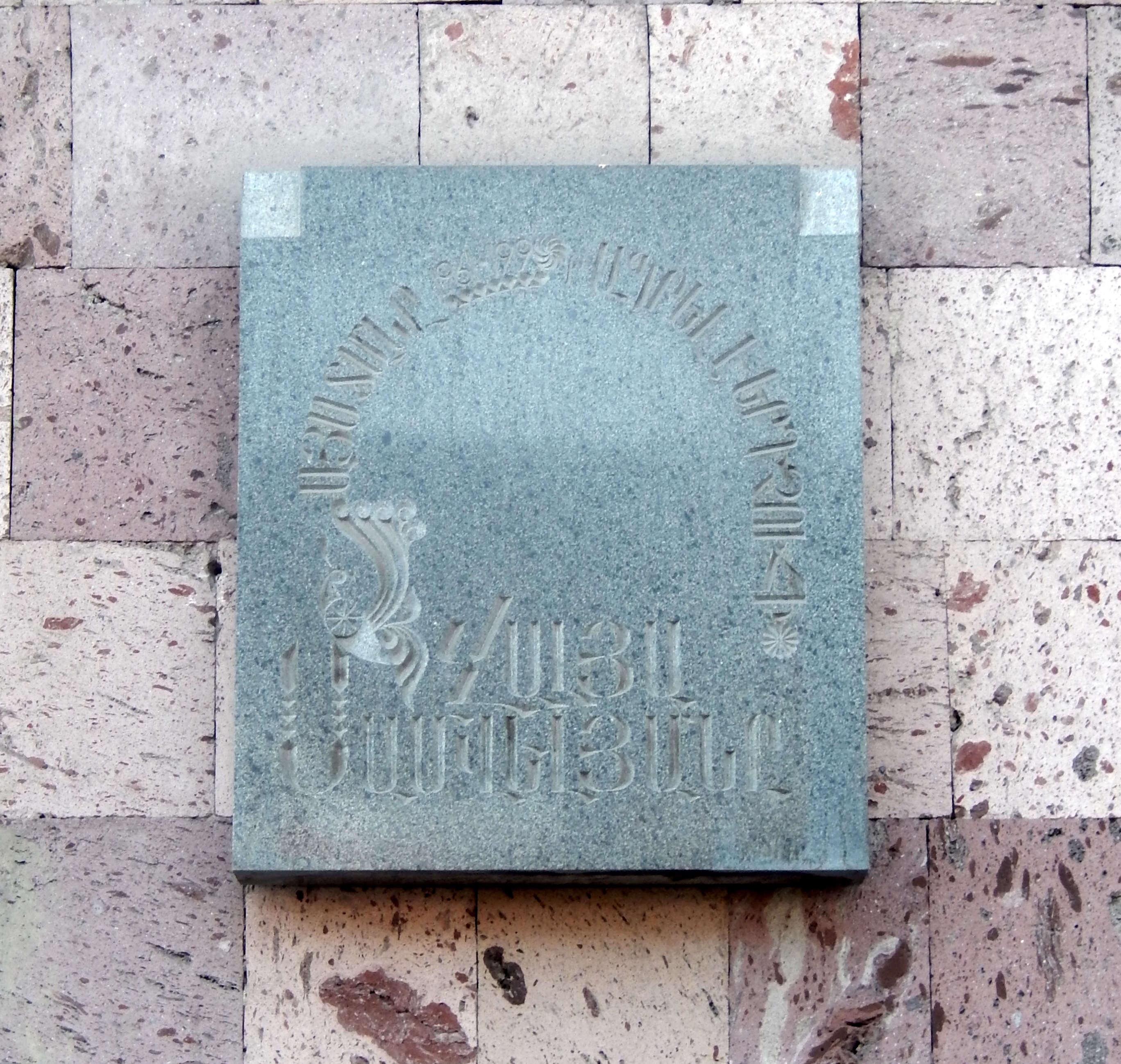 Valya Samvelyan Plaque